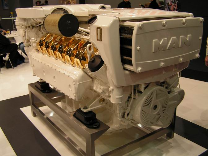 MAN Marine Engine, V12-1800